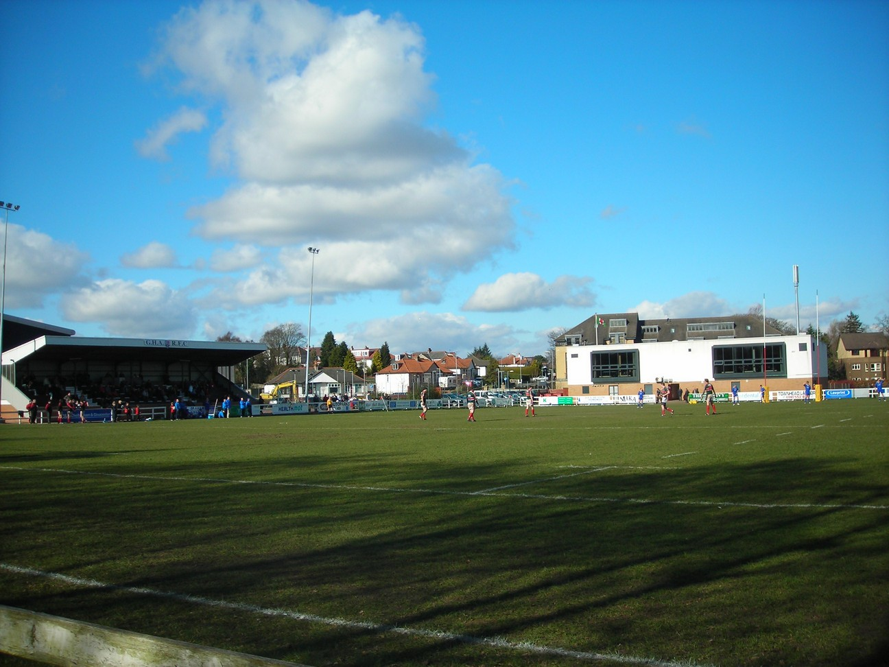 GHA Rugby Club in Glasgow Scotland